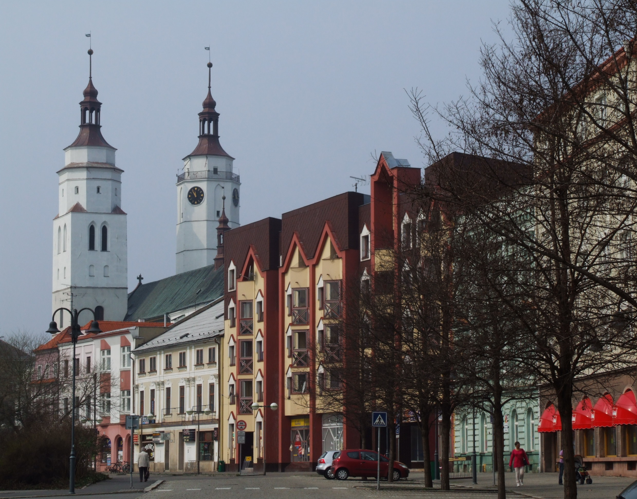 Market square and St. Martin church in Krnov (Jägerndorf), Czech Silesia